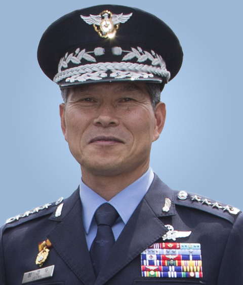 General Jeong Kyeong-doo, Chief of Staff, Republic of Korea Air Force (ROKAF)